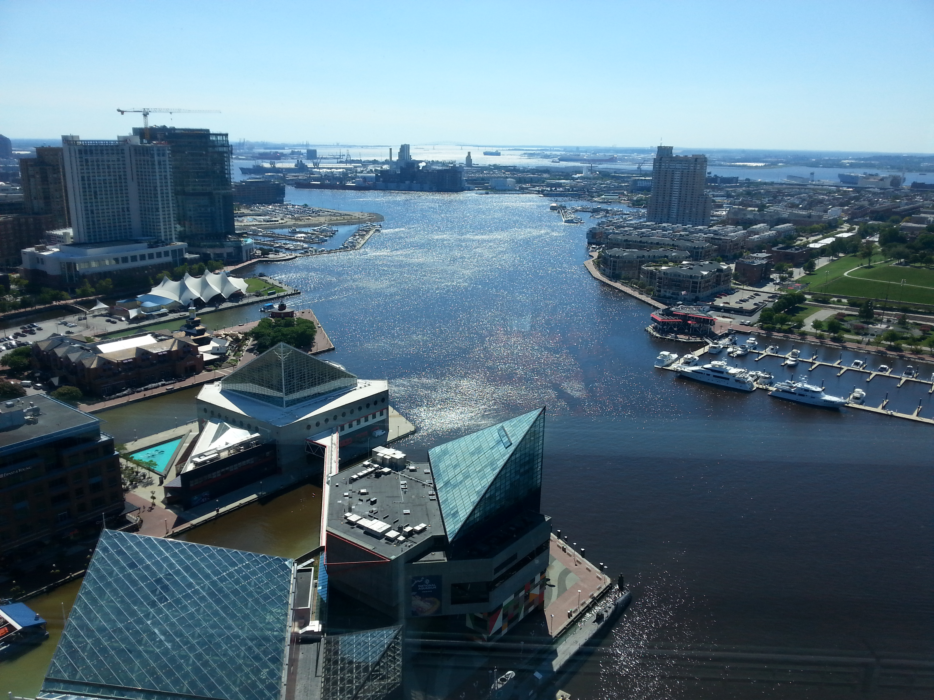 Down the harbor